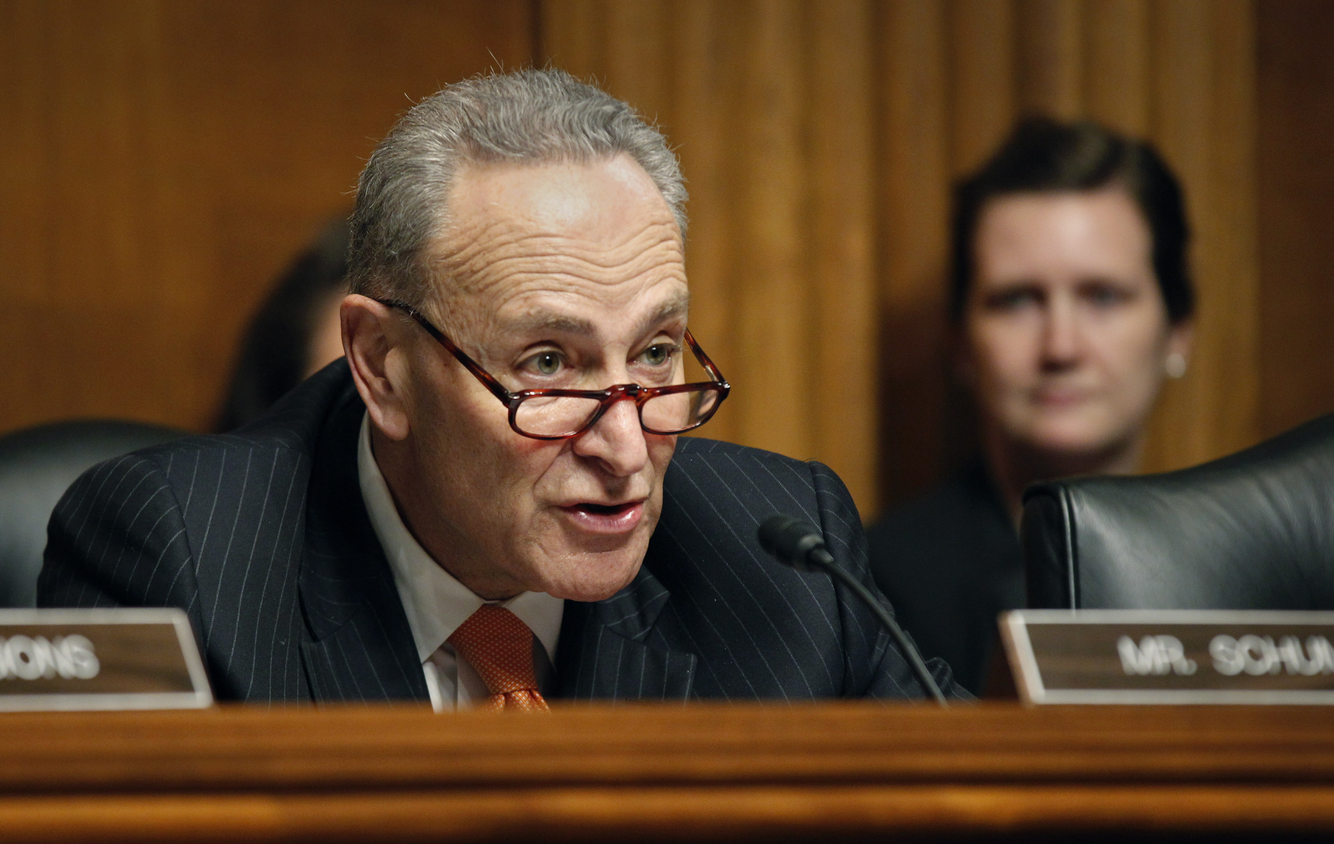 Sen. Charles Schumer, (D-N.Y) makes opening remarks during a hearing attended by a panel of Department of Homeland Security senior officials John Wagner, deputy assistant commissioner of the U.S. Customs and Border Protection's Office of Field Operations; Anh Duong, director of Border and Maritime Division of Homeland Security's Advanced Research Projects Agency; Craig Healy, assistant director of Immigration and Customs Enforcement's National Security Investigations Division; and Rebecca Gambler, director of Homeland Security and Justice Issues of the U.S. Government Accountability Office, as they deliver testimony on the unimplemented biometric exit tracking system before the Senate Subcommittee on Immigration and the National Interest, in Washington, D.C., Jan. 20, 2016. (CBP Photo by Glenn Fawcett)